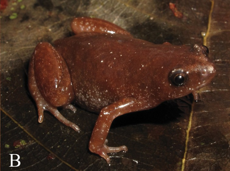 Female Chiasmocleis quilombola from the Municipality of Conceição da Barra, Espírito Santo.